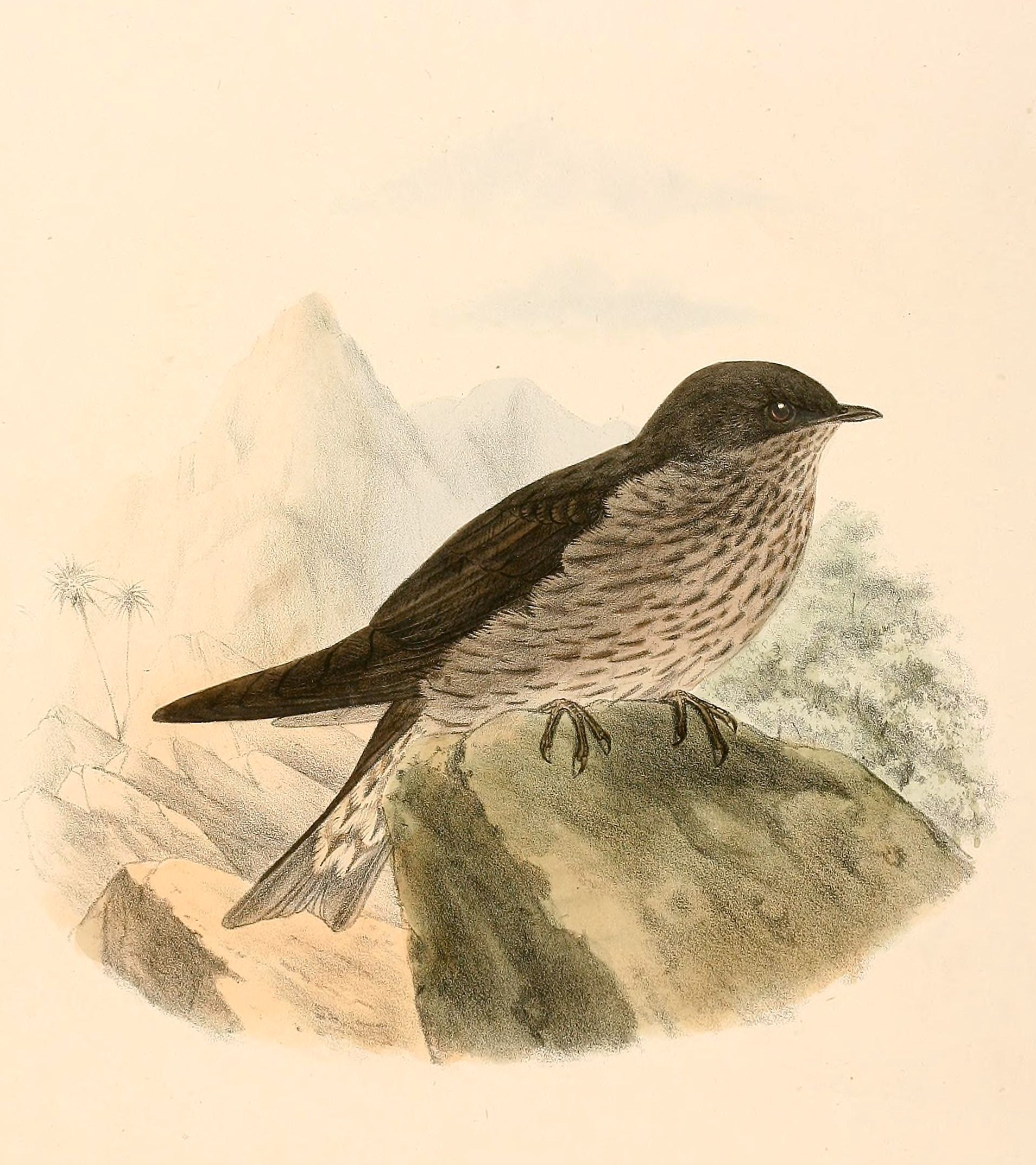 « Phedina borbonica » = Phedina borbonica borbonica (Subspecies of Mascarene Martin)